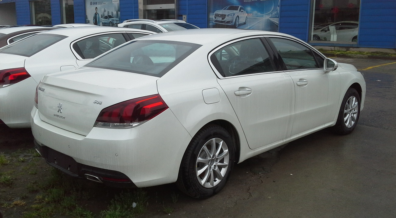 Peugeot 508 facelift photographed in Shanghai, China.